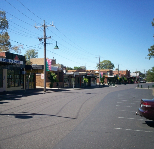 skinhat